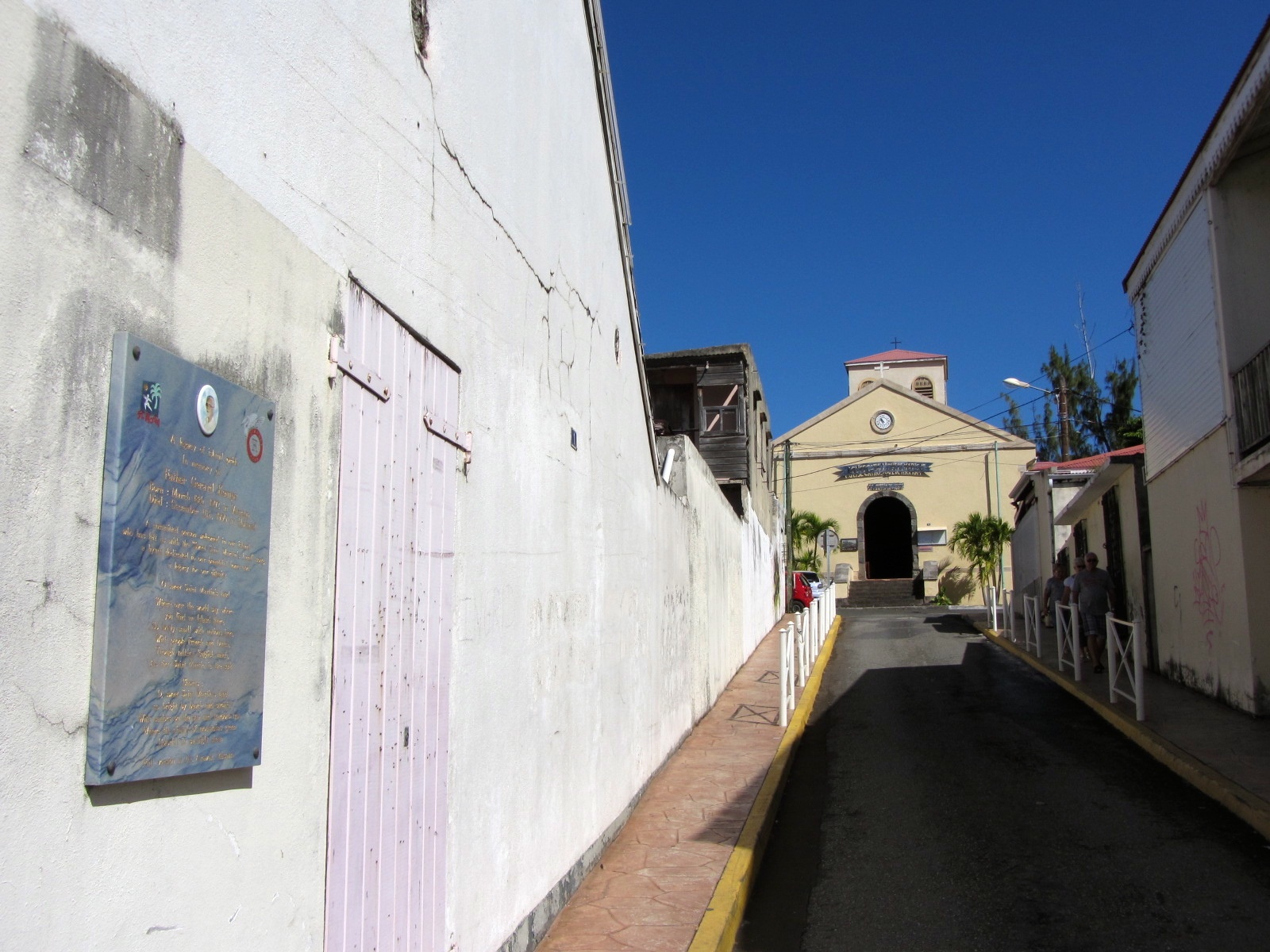 Rue Fichot with Eglise Catholique de Marigot, Horizontal